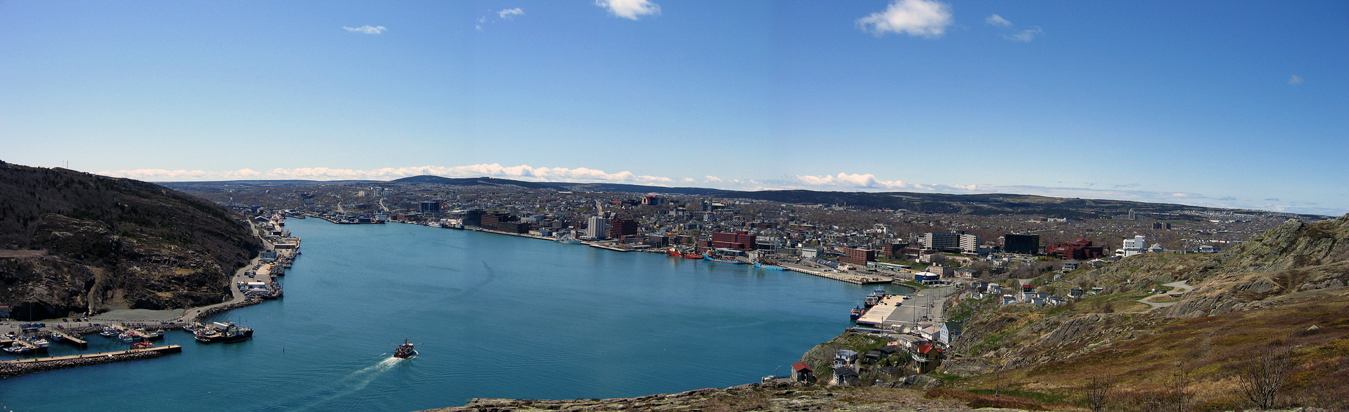 St. John's, Newfoundland